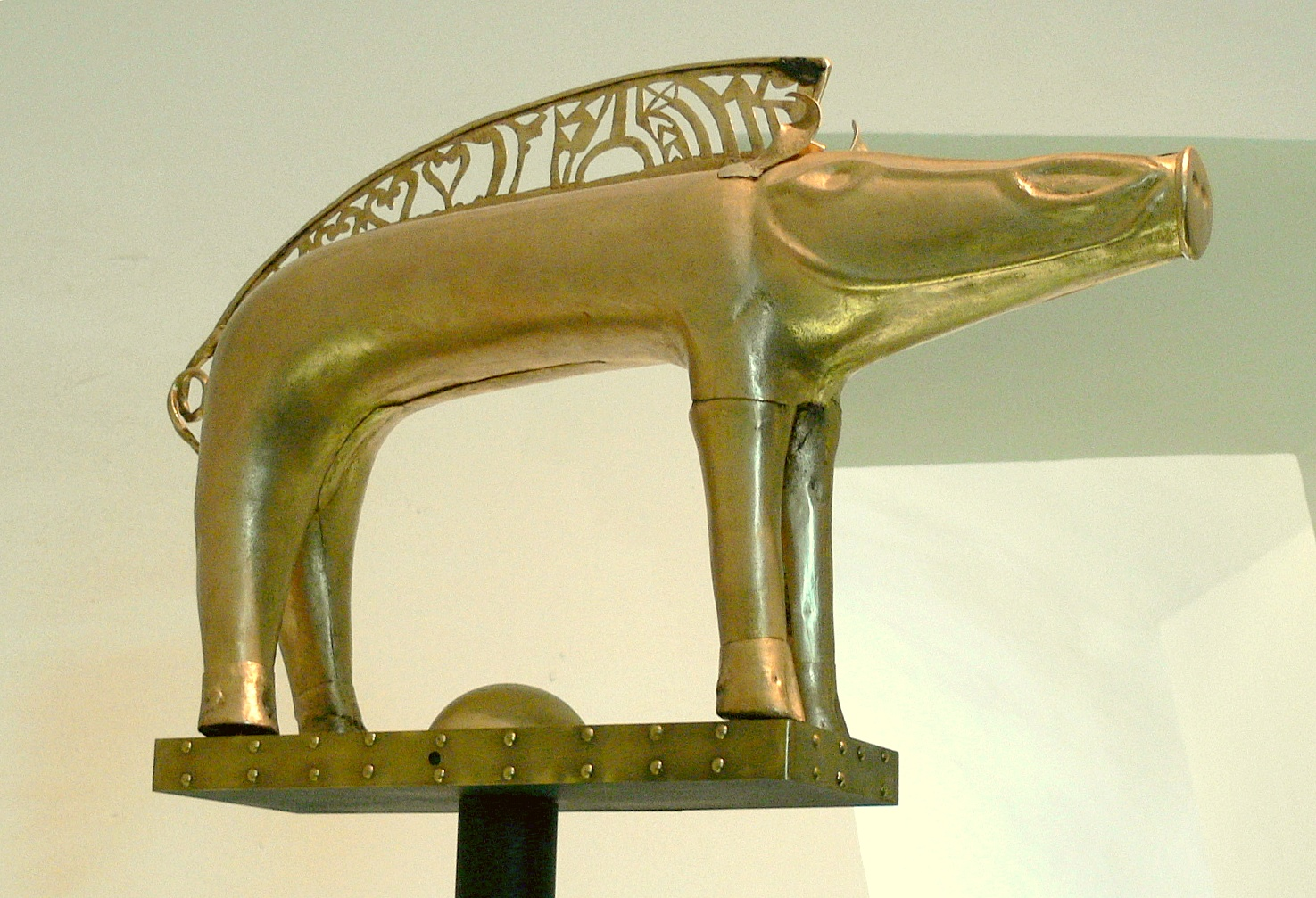 Celtic museum in Hallein ( Salzburg ). Replica of an celtic war standard from Soulac-sur-Mer ( 1st century BC ).